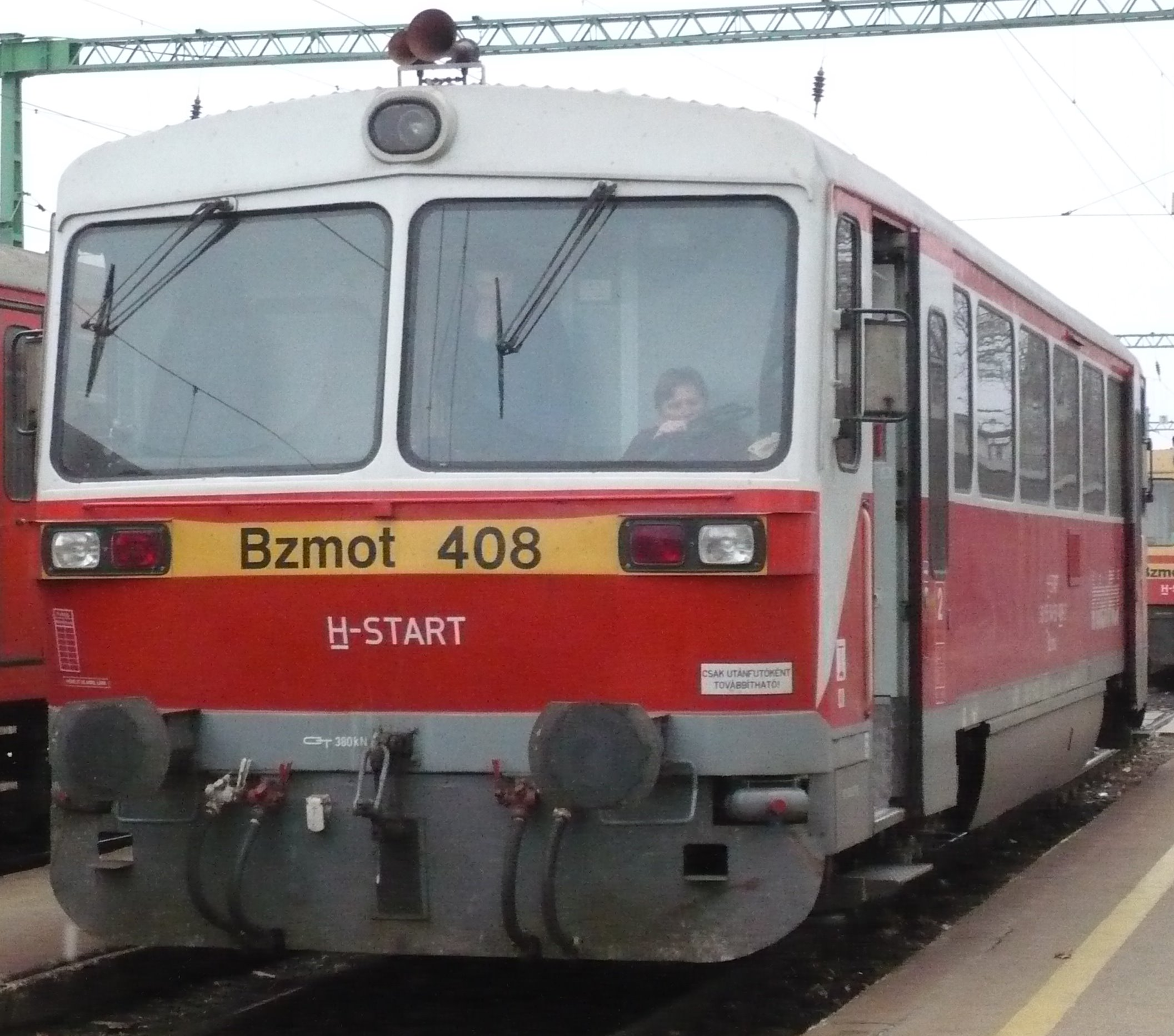 InterPici Bzmot train in Hungary.